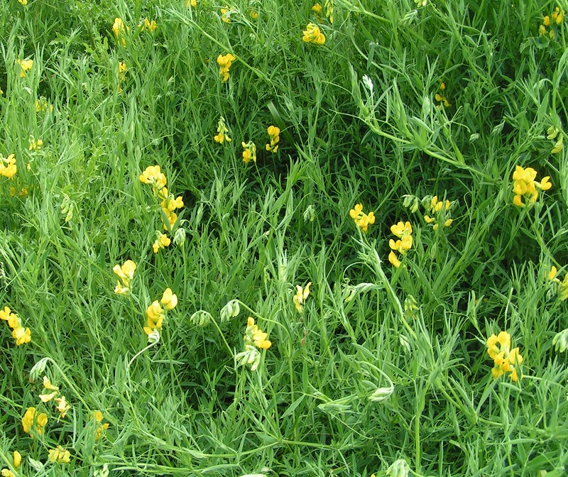 Meadow vetchling (Lathyrus pratensis). Photo by sannse, Great Holland Pits, Essex, 11 June 2004.